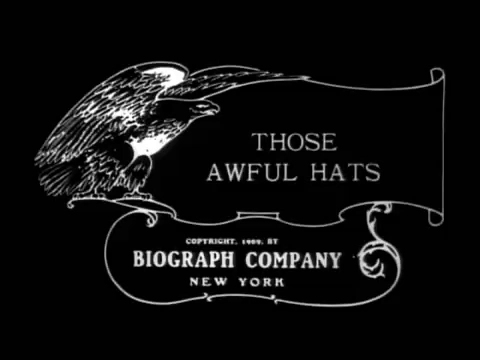 Title screen of D.W. Griffith's short film Those Awful Hats (1909)